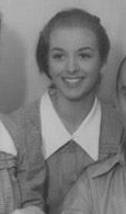 Dorys Bertrand-actriz argentina